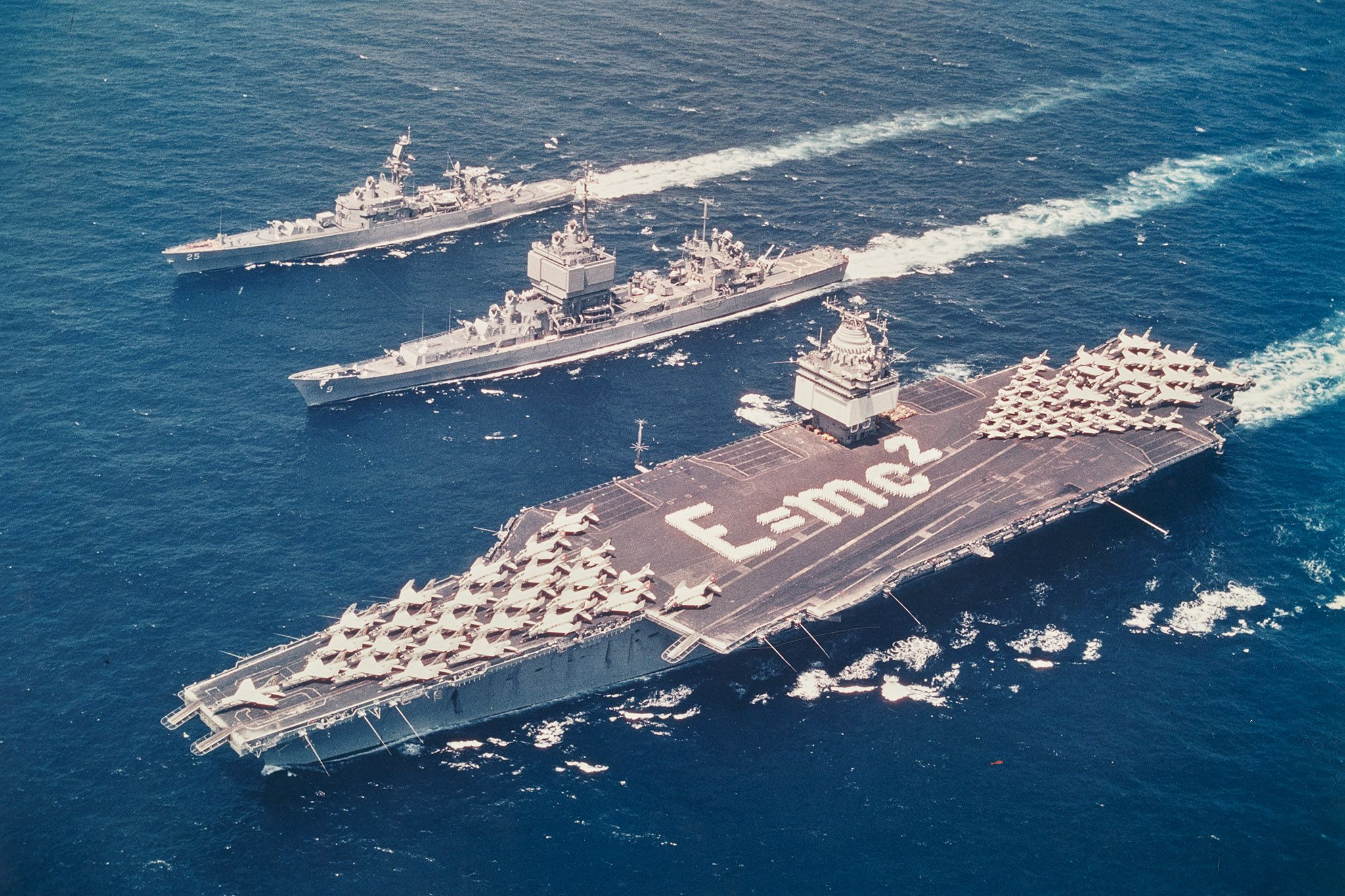 Operation Sea Orbit: on 31 July 1964, USS Enterprise (CVAN-65) (bottom), USS Long Beach (CGN-9) (center) and USS Bainbridge (DLGN-25) (top) formed "Task Force One," the first nuclear-powered task force, and sailed 26,540 nmi (49,190 km) around the world in 65 days. Accomplished without a single refueling or replenishment, "Operation Sea Orbit" demonstrated the capability of nuclear-powered surface ships.